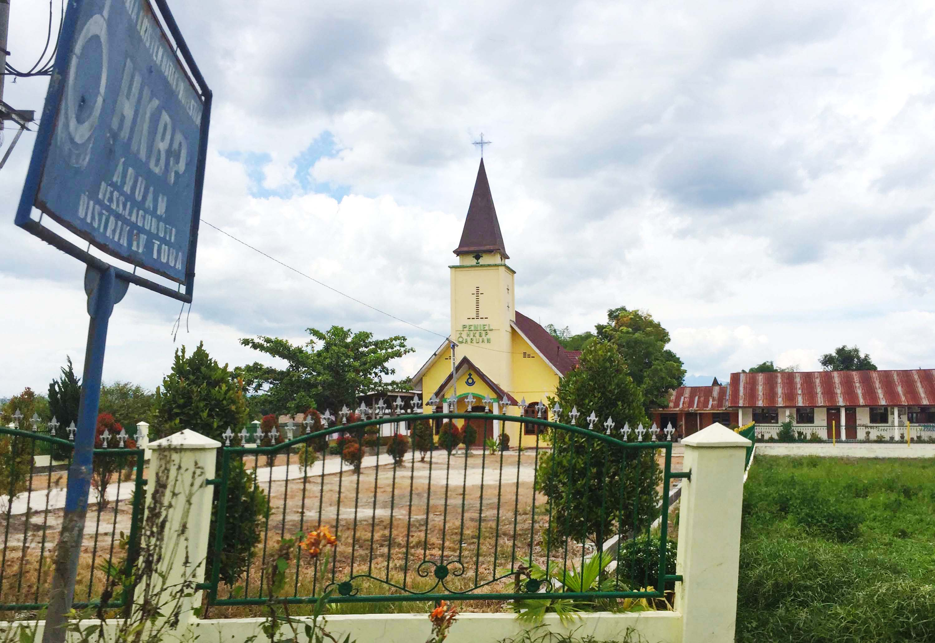 HKBP Peniel Aruan, Church in Aruan, Laguboti, Toba Samosir